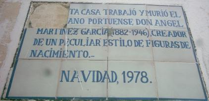 ANGEL_MARTINEZ_PLACA.JPG